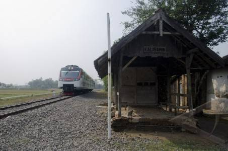 Ambarawa Railway MuseumBahasa Indonesia: Halte Kalisamin saat ini sudah dipindah di Museum Kereta Api Ambarawa